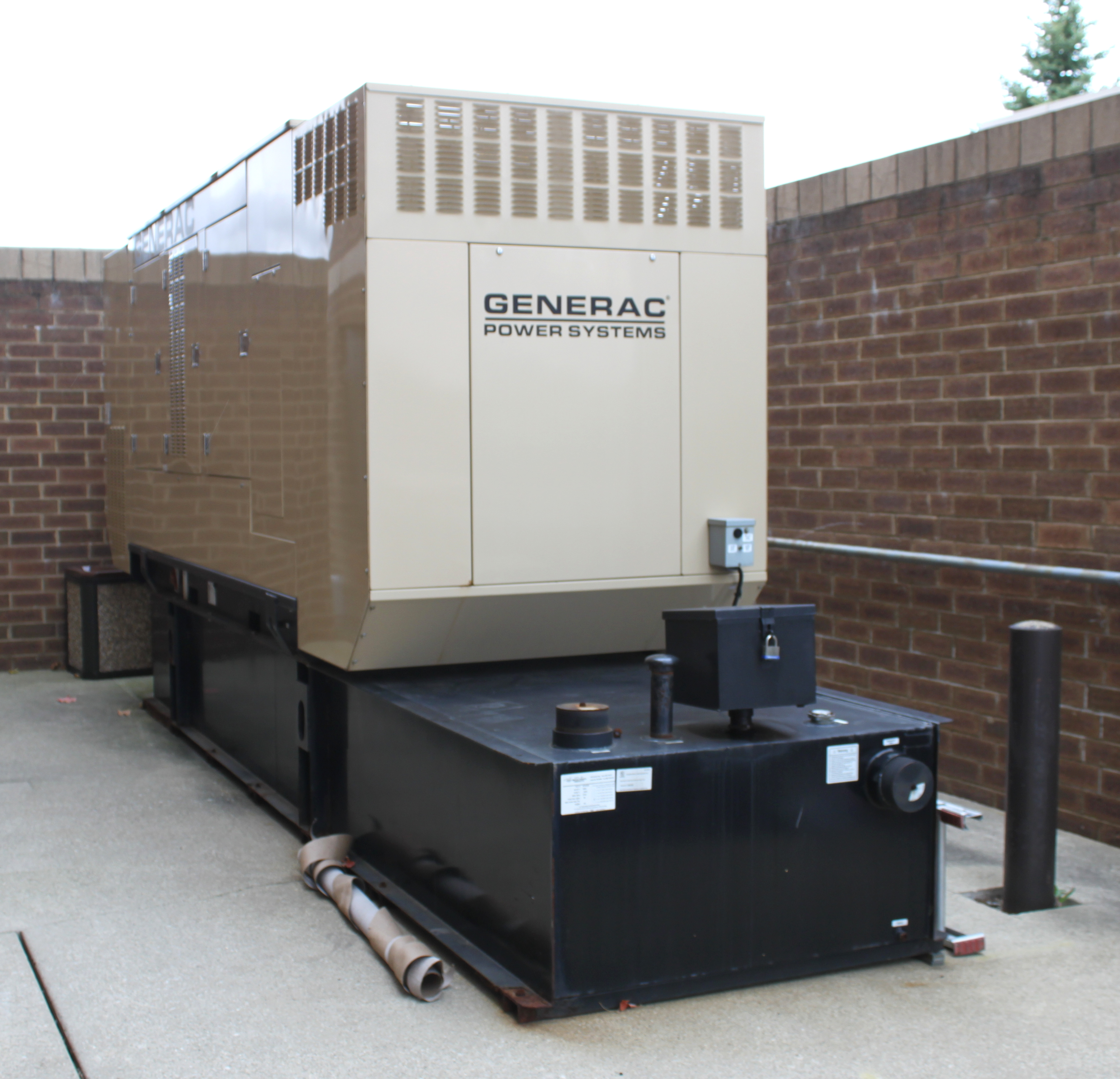 Generac SB-375 commercial generator on base fuel tank, 1000 Victors Way, Ann Arbor, Michigan.